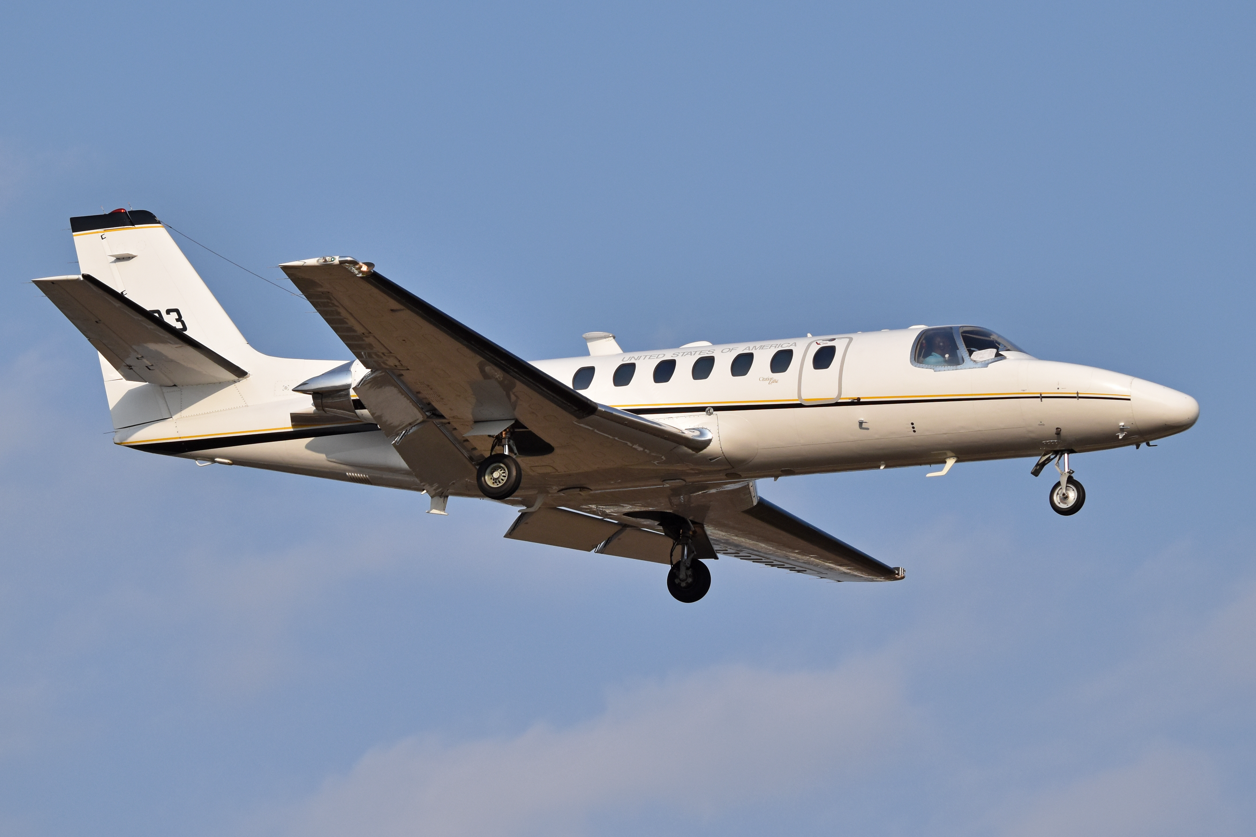 c/n 560-0462 Built 1997 Full US military serial 97-00103 Operated by the 52nd Aviation Regiment, United States Army Seen on approach to Naval Air Facility Atsugi Kanagawa Prefecture, Japan 12th March 2019